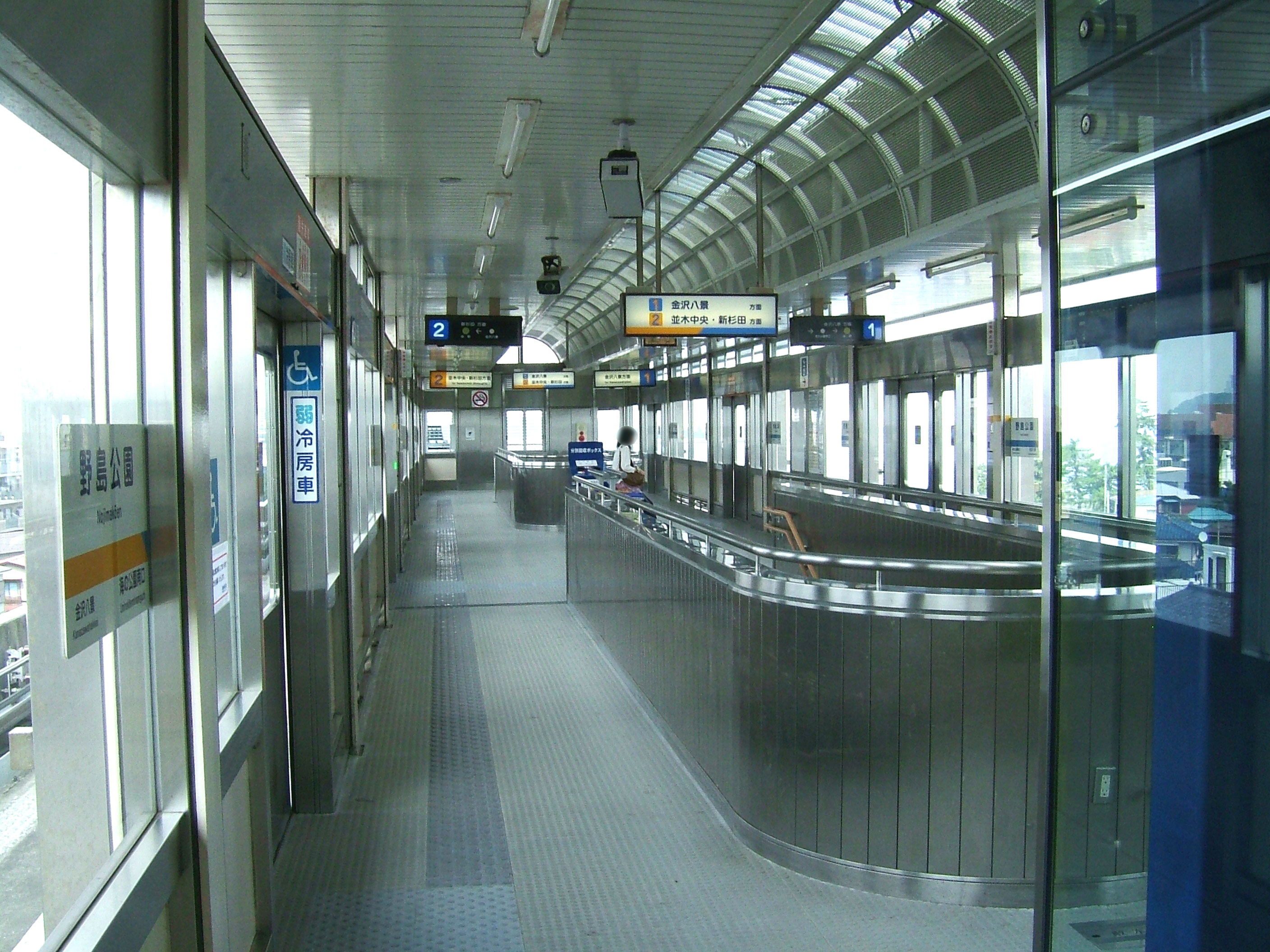 Nojimakoen Station platform (Kanazawa Seaside Line)